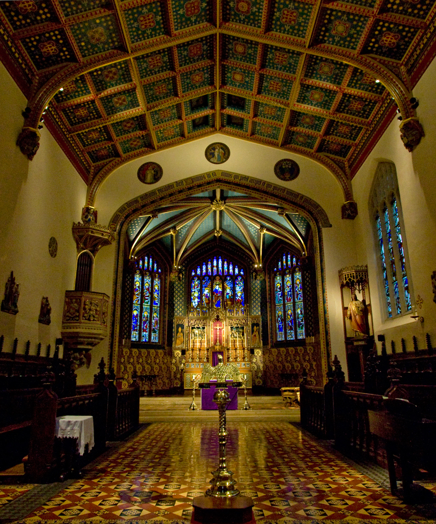 Oscott College in Sutton Coldfield